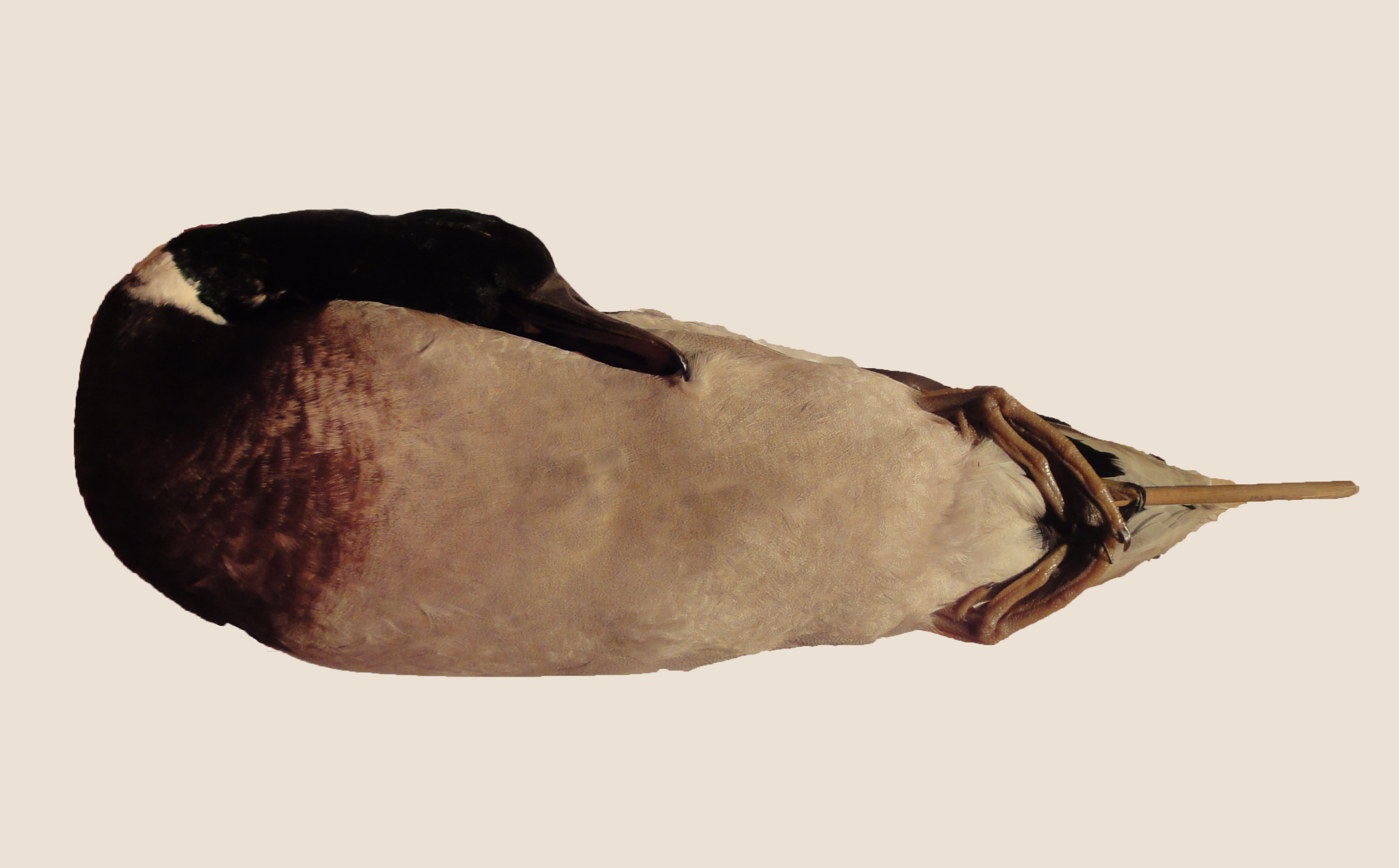 the duck that hit the Natural History Museum window